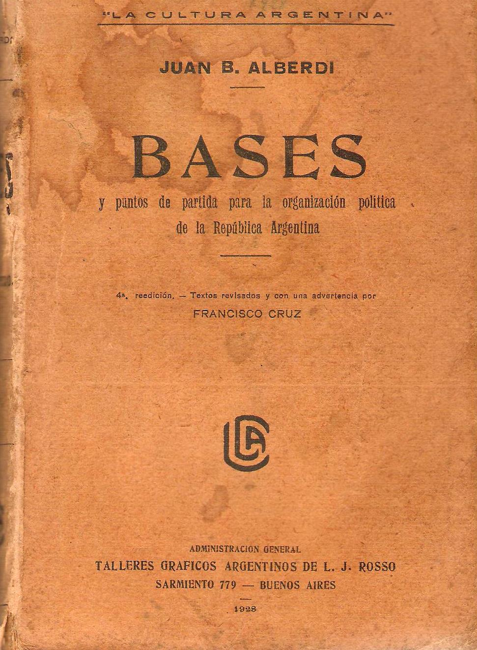 Bases y puntos de partida para la organización política de la República Argentina by Juan Bautista Alberdi. Edición de 1928.